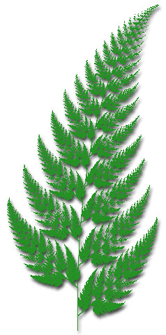 Fraktal ormbunke. Bilden skapad av Solkoll Image: User:Solkoll. Graphical illustrations made from mathematical algorithms, (well, some of them are "handcrafted" =) This work has been released into the public domain by its author, Solkoll. This applies worldwide. In some countries this may not be legally possible; if so: Solkoll grants anyone the right to use this work for any purpose, without any conditions, unless such conditions are required by law. More images I have made from maths: Image:3D Lissajous figure (9, 4, 1).jpg Image:Absolute value.jpg Image:H2O (water molecule).jpg Image:Hypnotic colours.jpg Image:Trisambig poseidon.jpg See also: Solkoll 2D & Solkoll 3D Kategori:Bilder av fraktaler